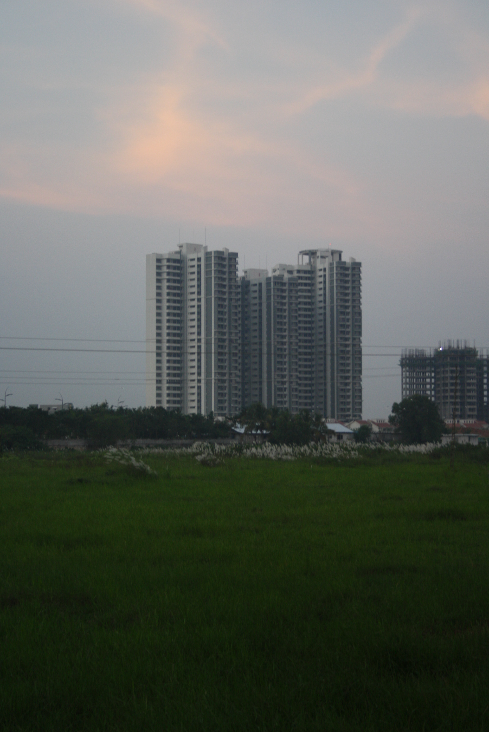 A view of Sobha Topaz, a super luxury residential skyscraper situated in Sobha City in Thrissur City of Kerala State. It is the tallest residential skyscraper in Thrissur City (97.90 metres with Helipad) and the second tallest residential building in Kerala State.